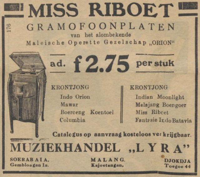 An advertisement for Miss Riboet gramophones.